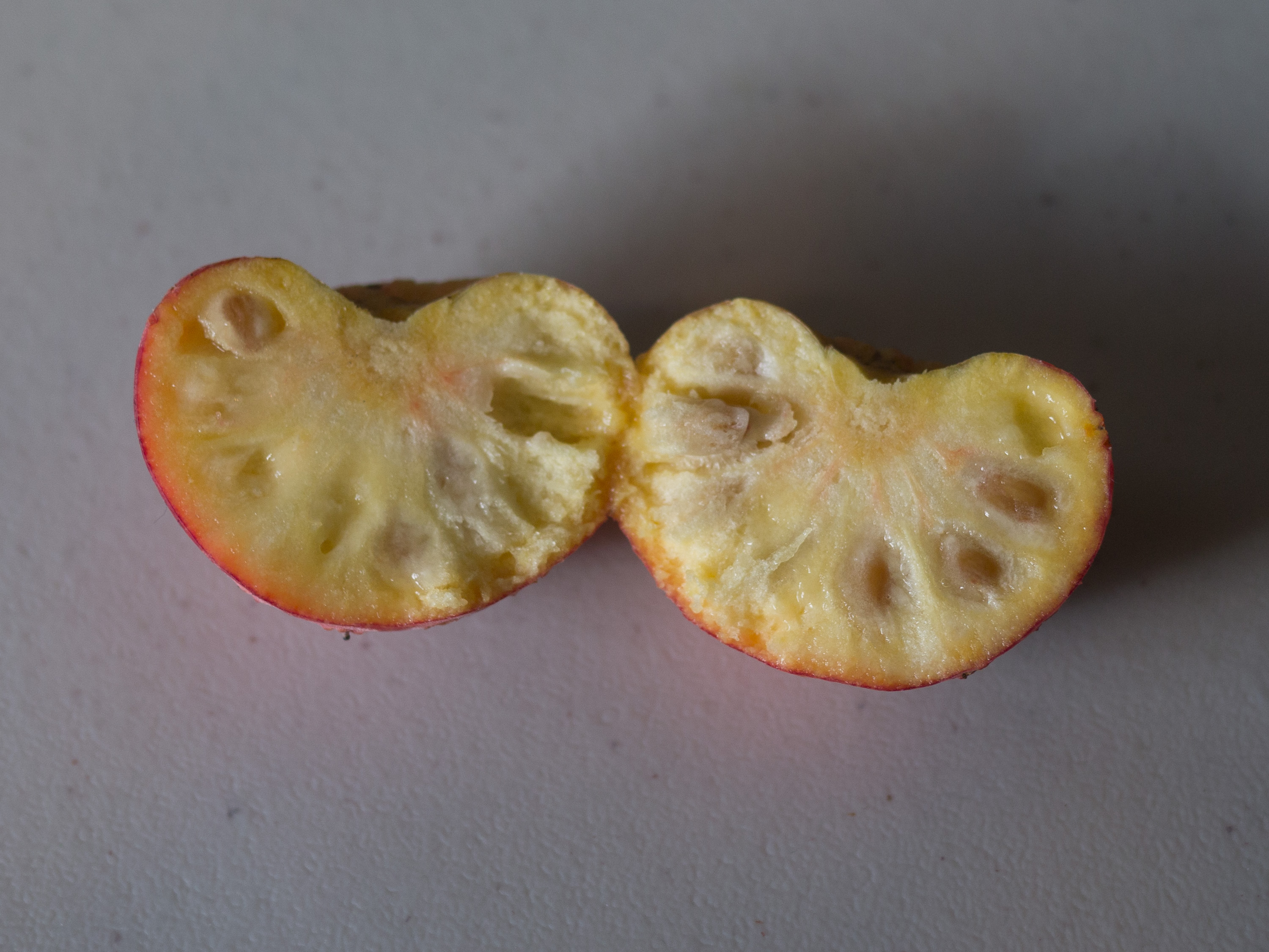 Kousa Dogwood cut in half showing yellow flesh.